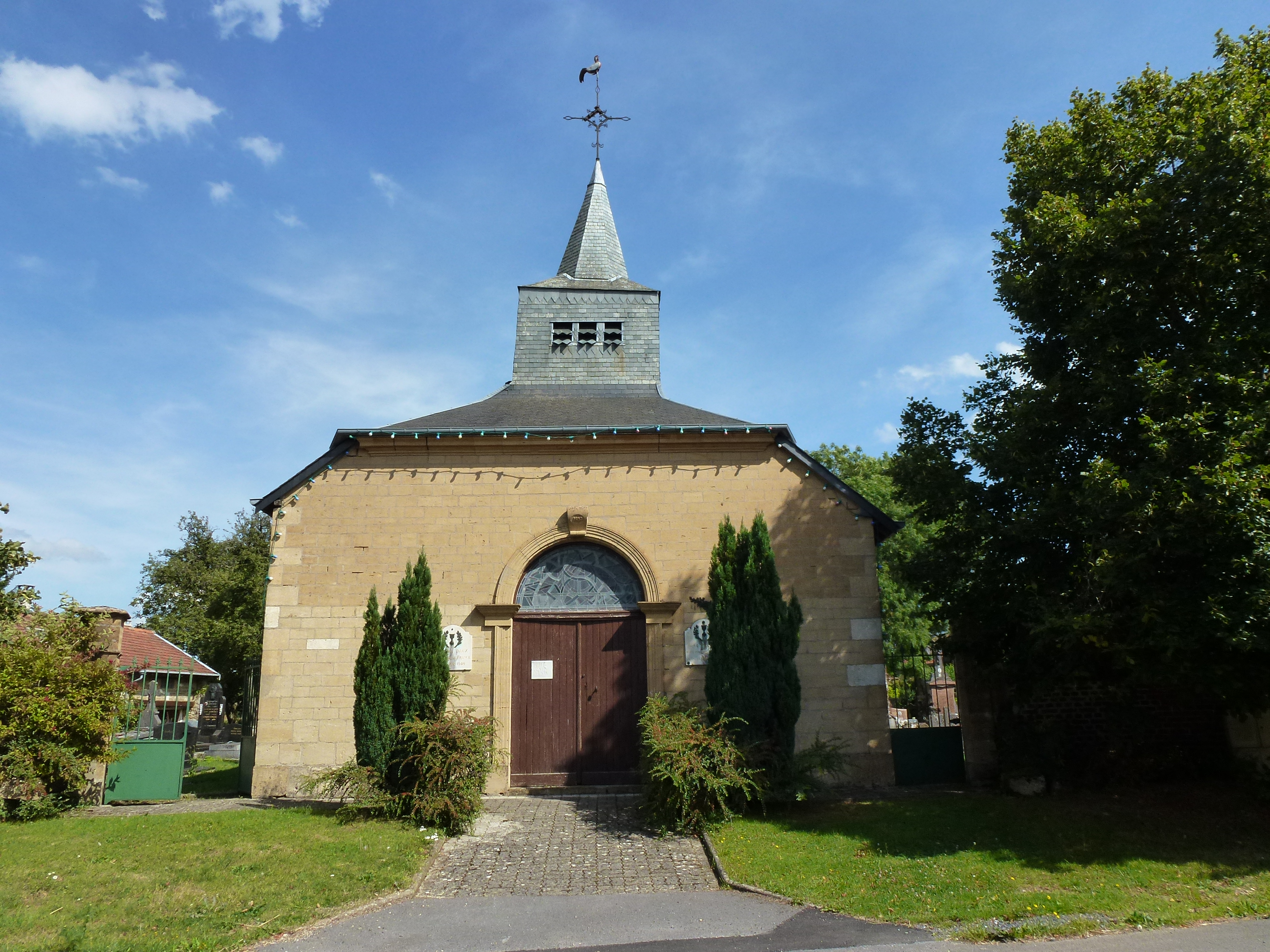 Villers-sur-le-Mont (Ardennes) église, façade